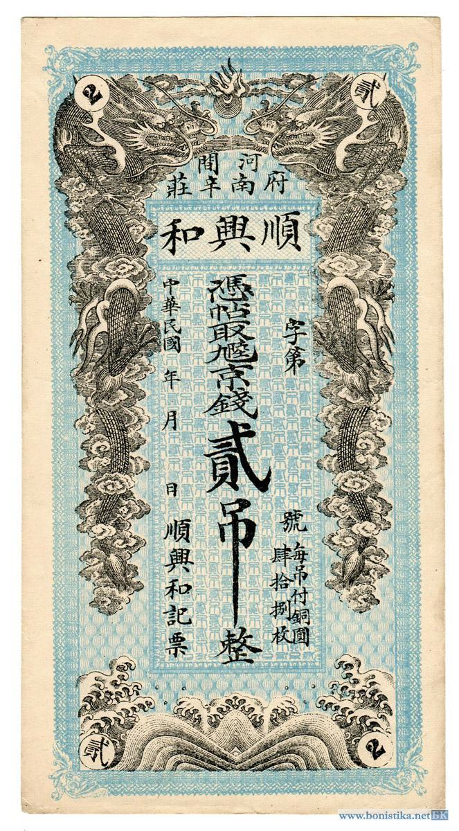 A historical Chinese banknote from the website.